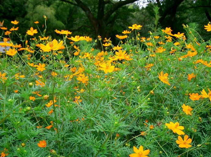 Cosmos sulphureus in Osaka-fu Japan